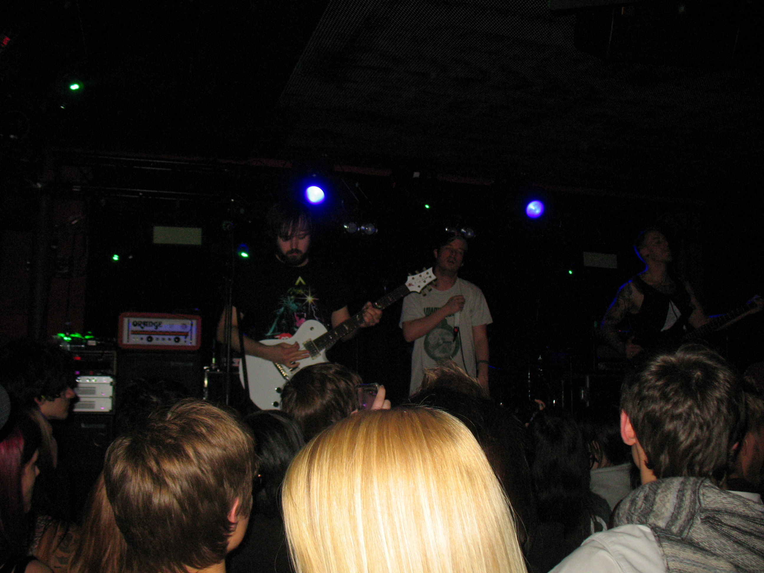 Welsh band Funeral for a Friend live at Komplex 457, Zurich, 2013-04-07